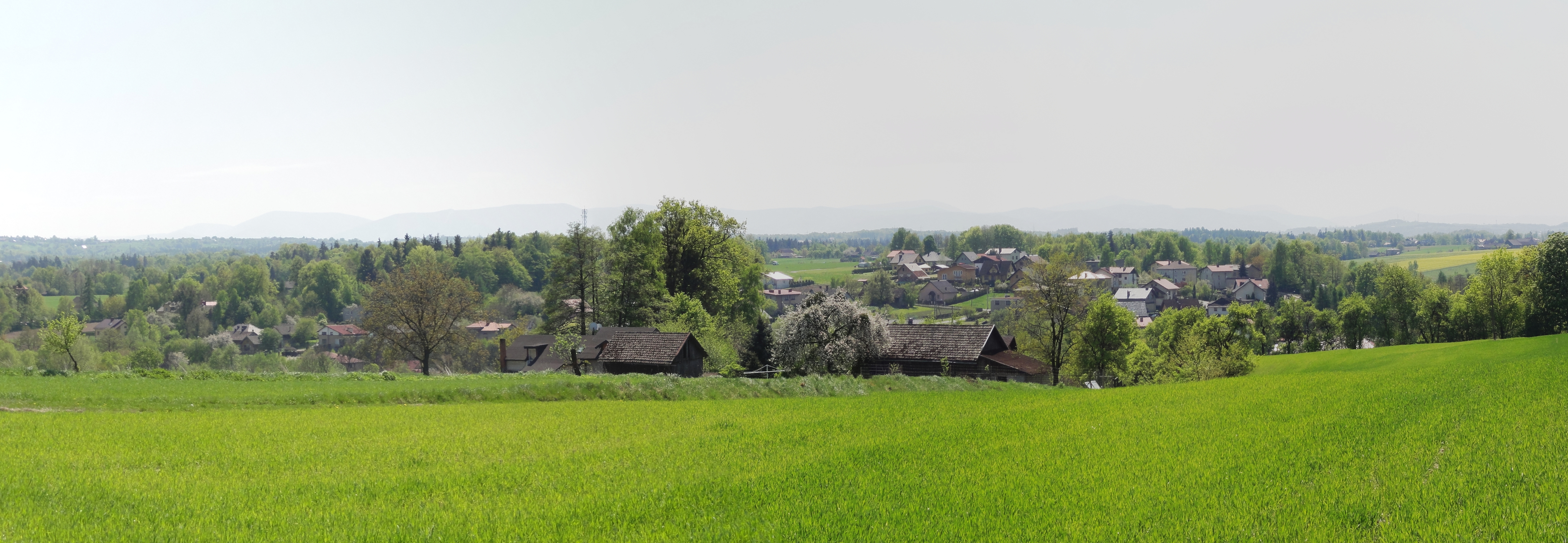 General view on central valley of Kończyce Wielkie